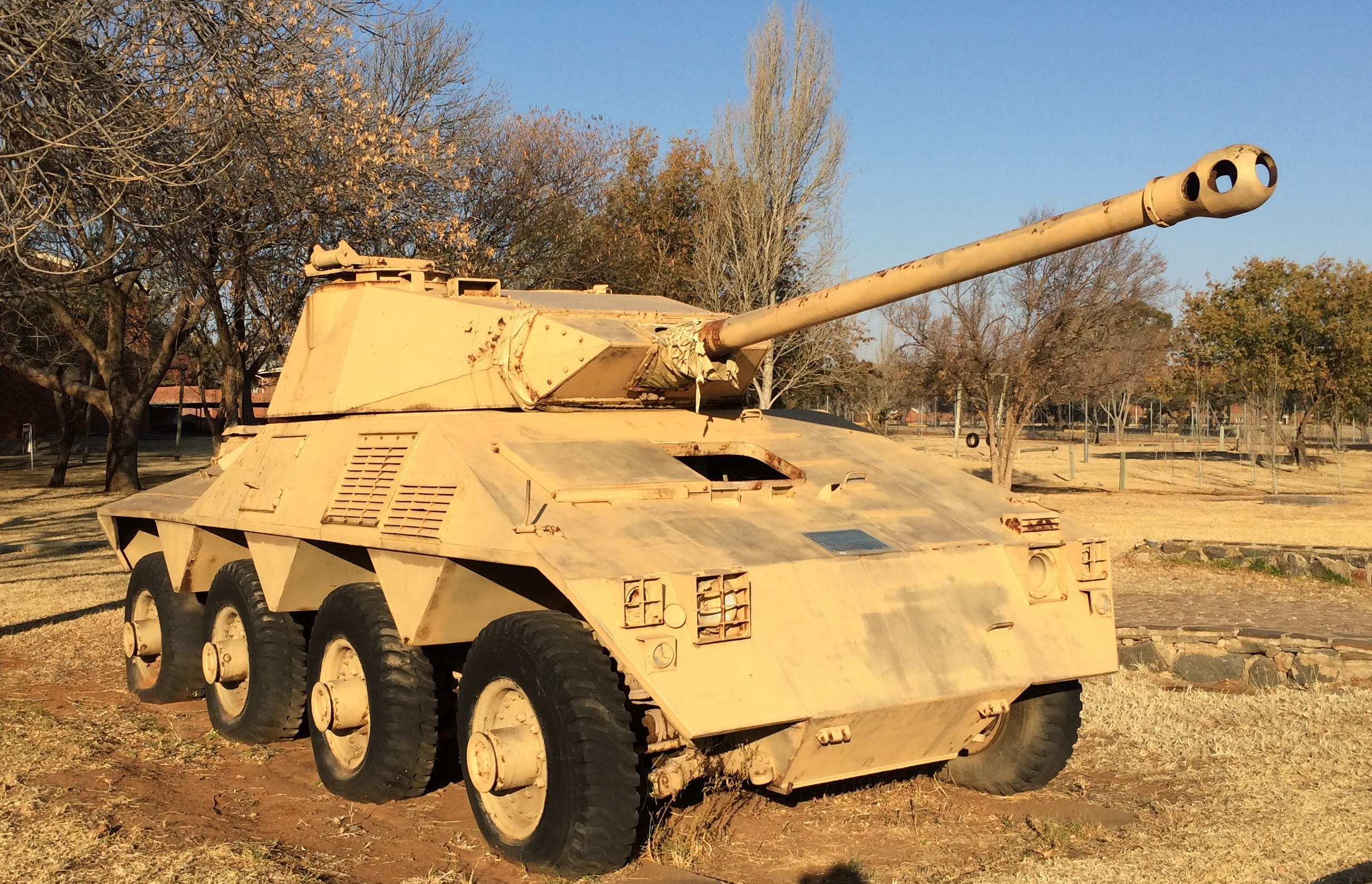 Description: Armored car with disabled 77mm gun at 1 Tank Regiment, Bloemfontein. 2014. Remark: Subject is an eight-wheeled variant of the Alvis FV603 Saracen chassis, with a custom hull by Armscor of South Africa. The vehicle in question is no longer operational and is now being used as an on-base marker at Tempe.